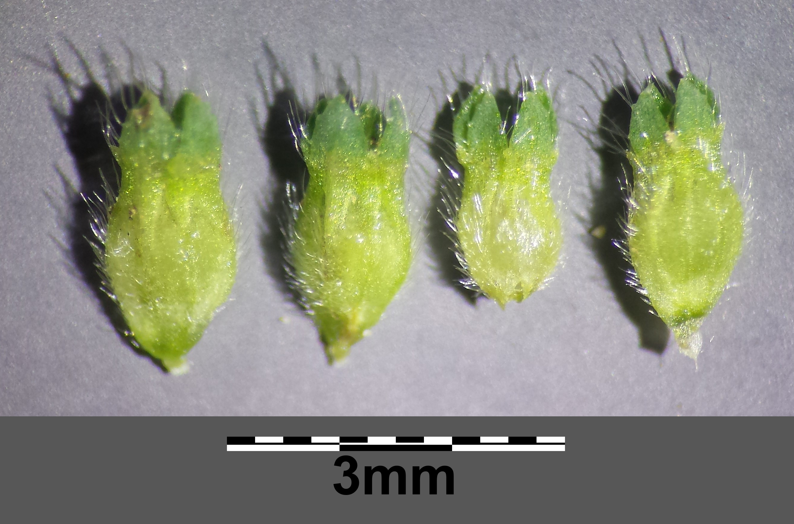 Fruit hypanthia Taxonym: Aphanes arvensis ss Fischer et al. EfÖLS 2008 ISBN 978-3-85474-187-9 Location: nearby Riebeis, Rappottenstein, district Zwettl, Lower Austria - ca. 760 m a.s.l. Habitat: border of a field